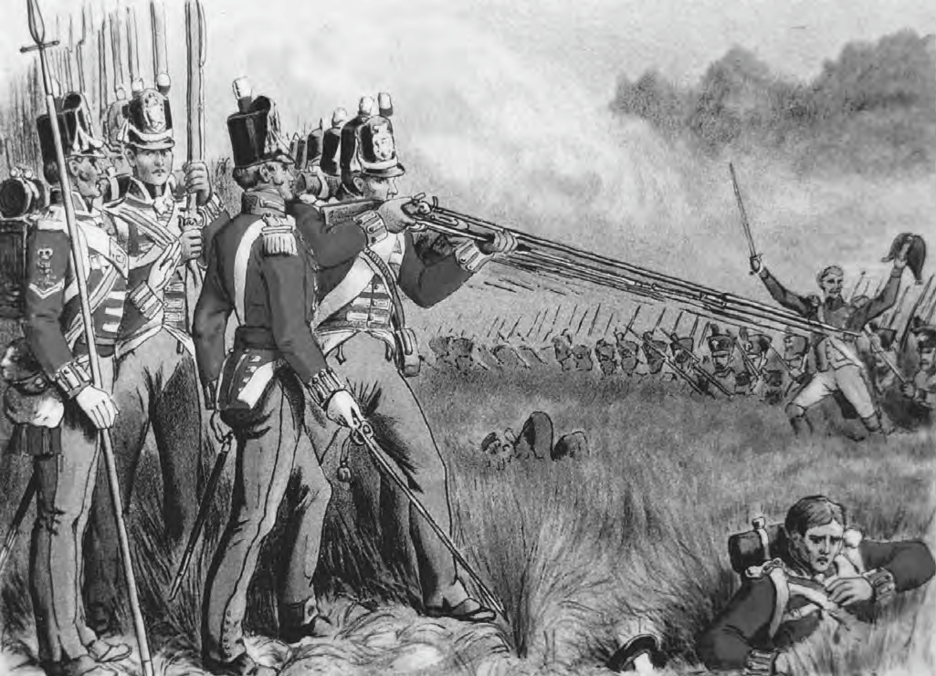 British infantry deployed in line prepare to repulse an advancing French column. Disciplined, short-range musket volleys, followed by a bayonet charge, usually drove off an attacker.